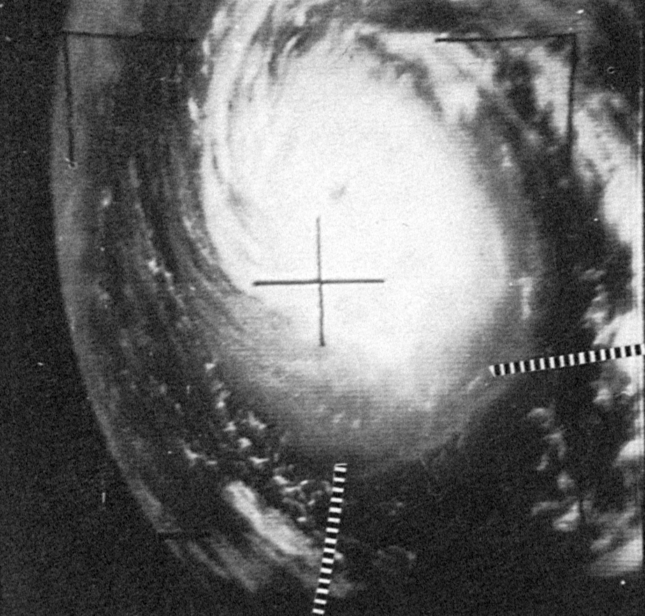 Super Typhoon Amy on August 31, 1962 2322 UTC.